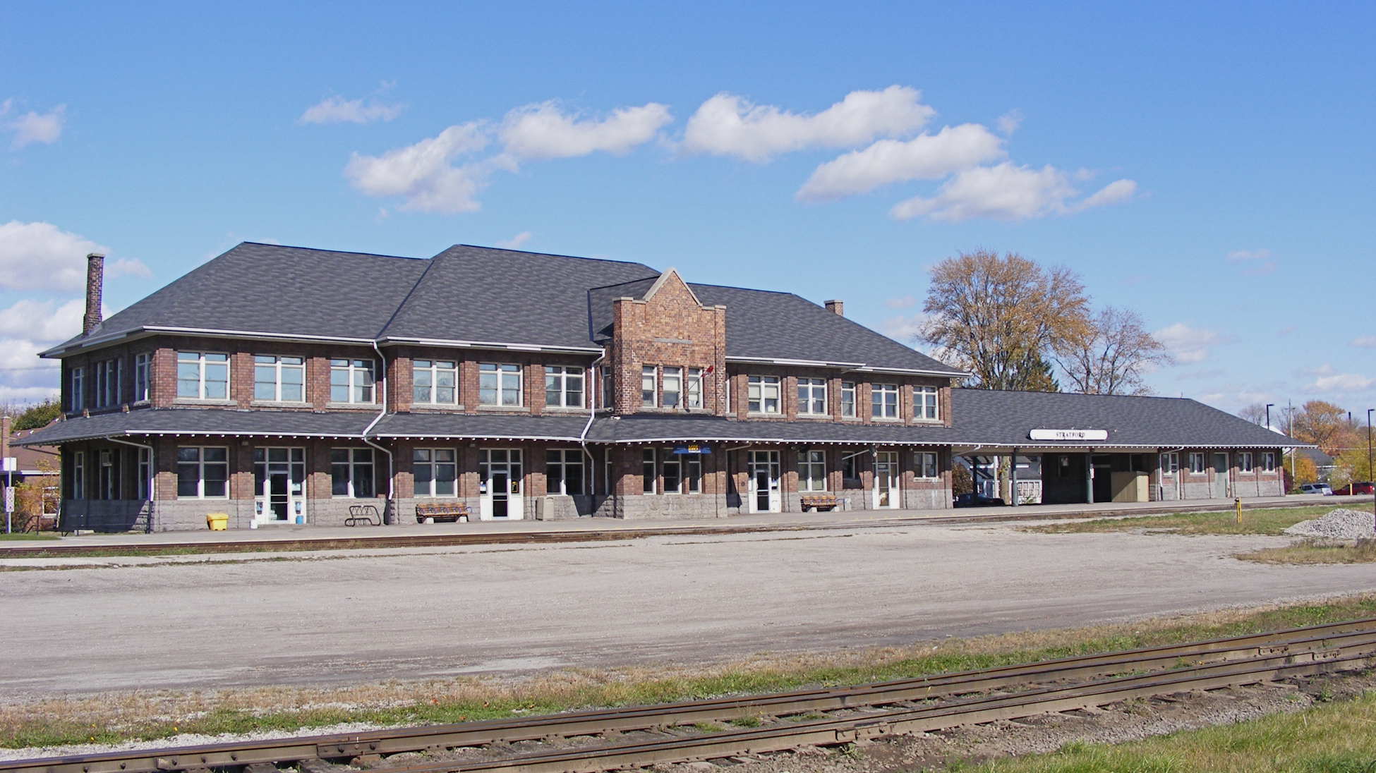 Train station in Stratford, Ontario.